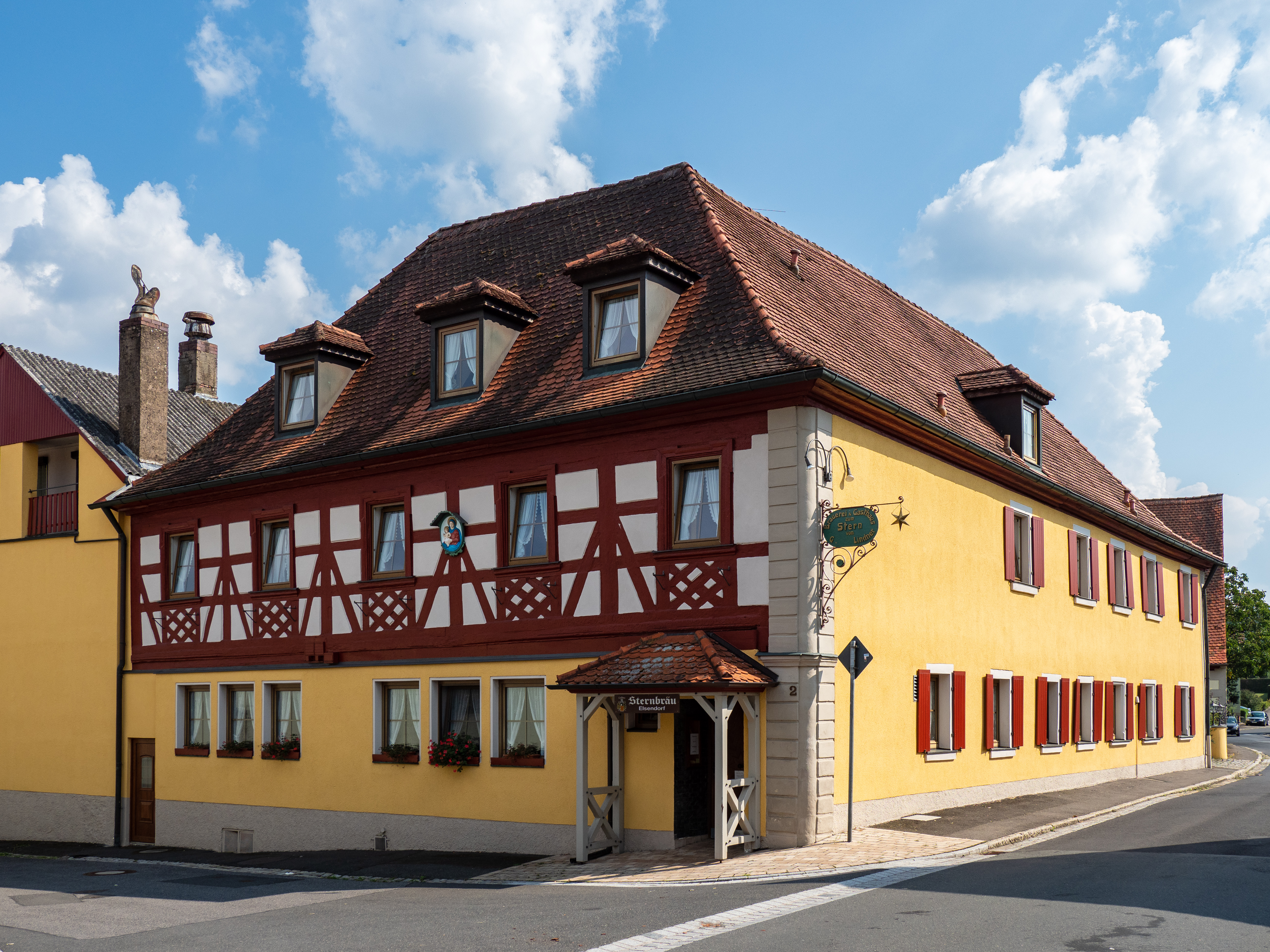 Brewery Inn Stern in Elsendorf near Schlüsselfeld